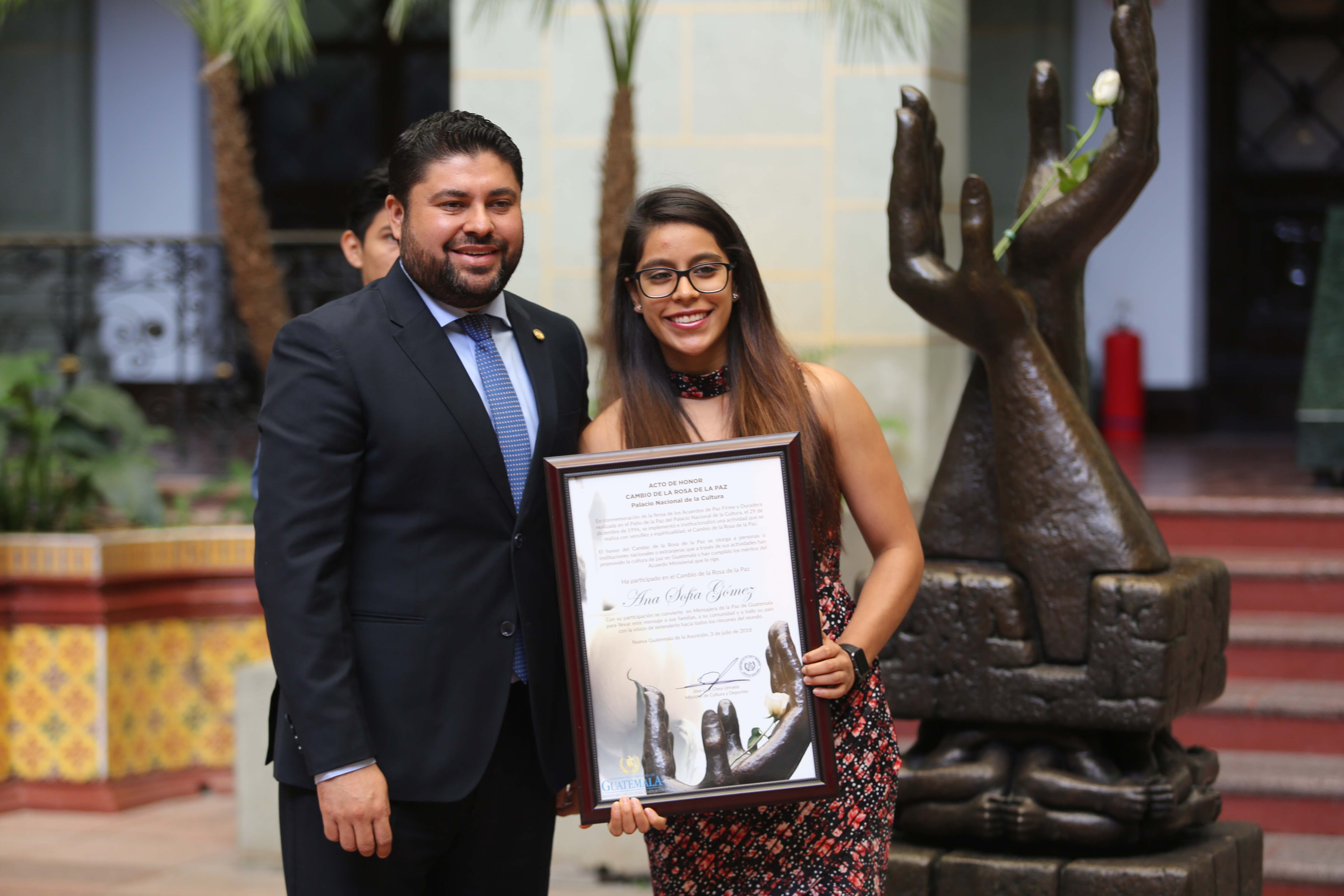 Ana Sofia Gomez designated Peace Messenger by Guatemalan Culture and Sports Ministry.